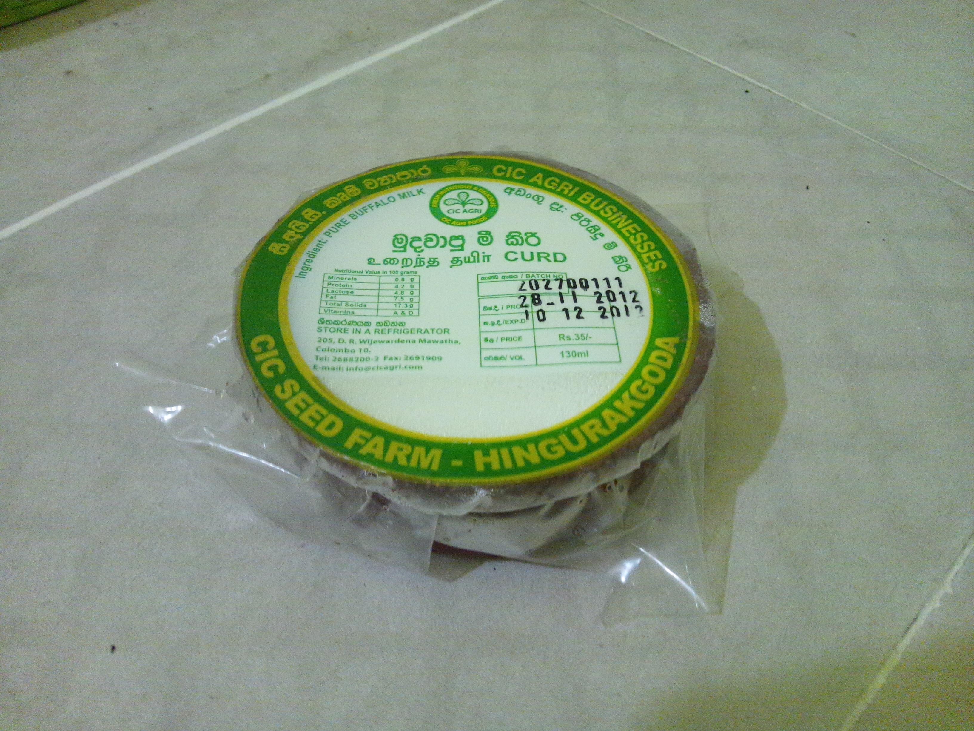 Curd (මී කිරි, Yogurt) in Sri Lanka.